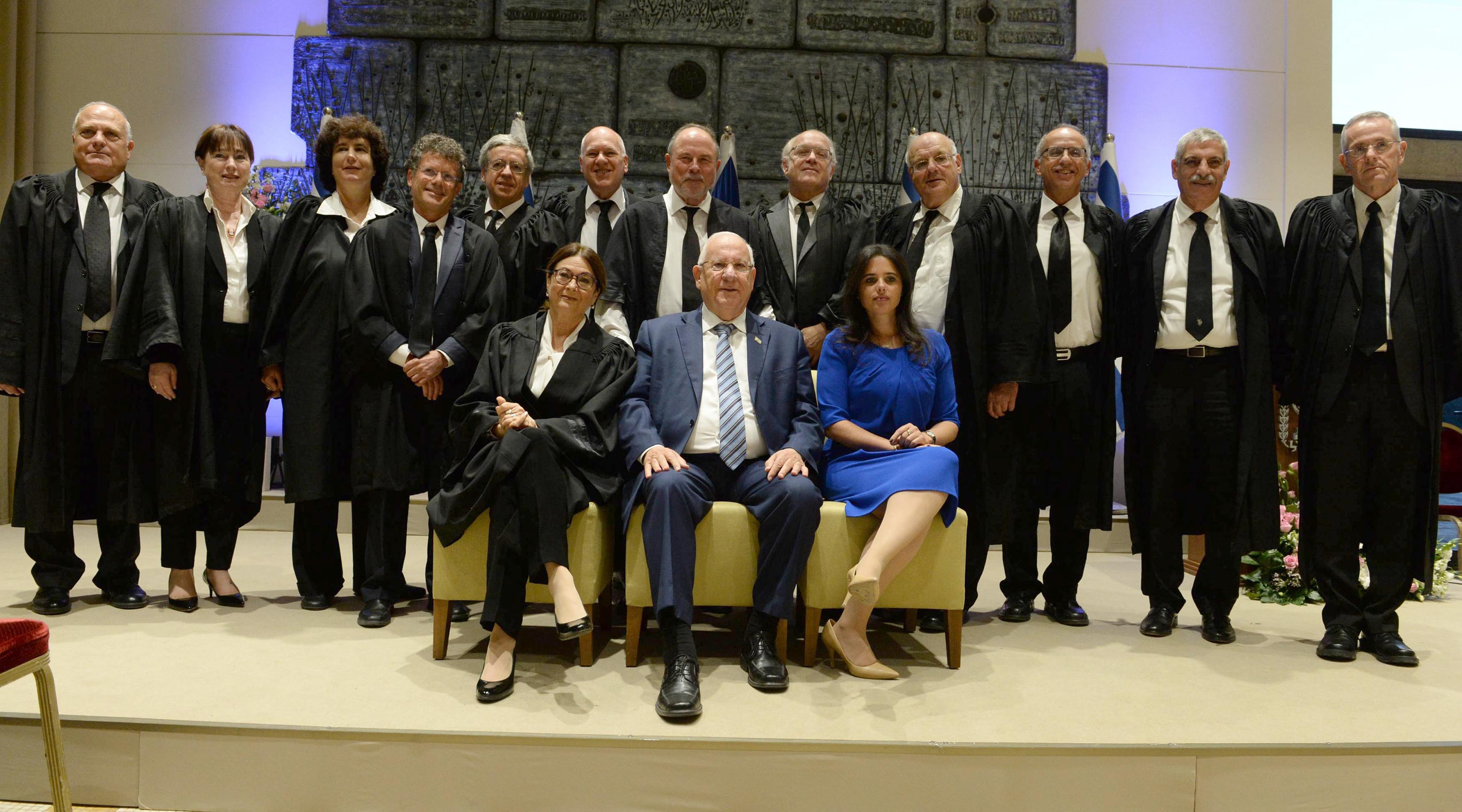 President Reuven Rivlin is swearing in incoming Supreme Court President Esther Hayut at Beit HaNassi. Thursday, October 27, 2017. Photo Credit: Mark Neyman / GPO.